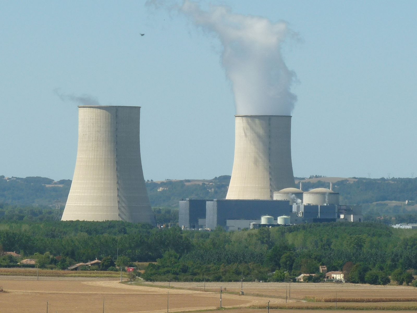 Nuclear plant of Golfech seen from Auvillar, Tarn-et-Garonne, SW France